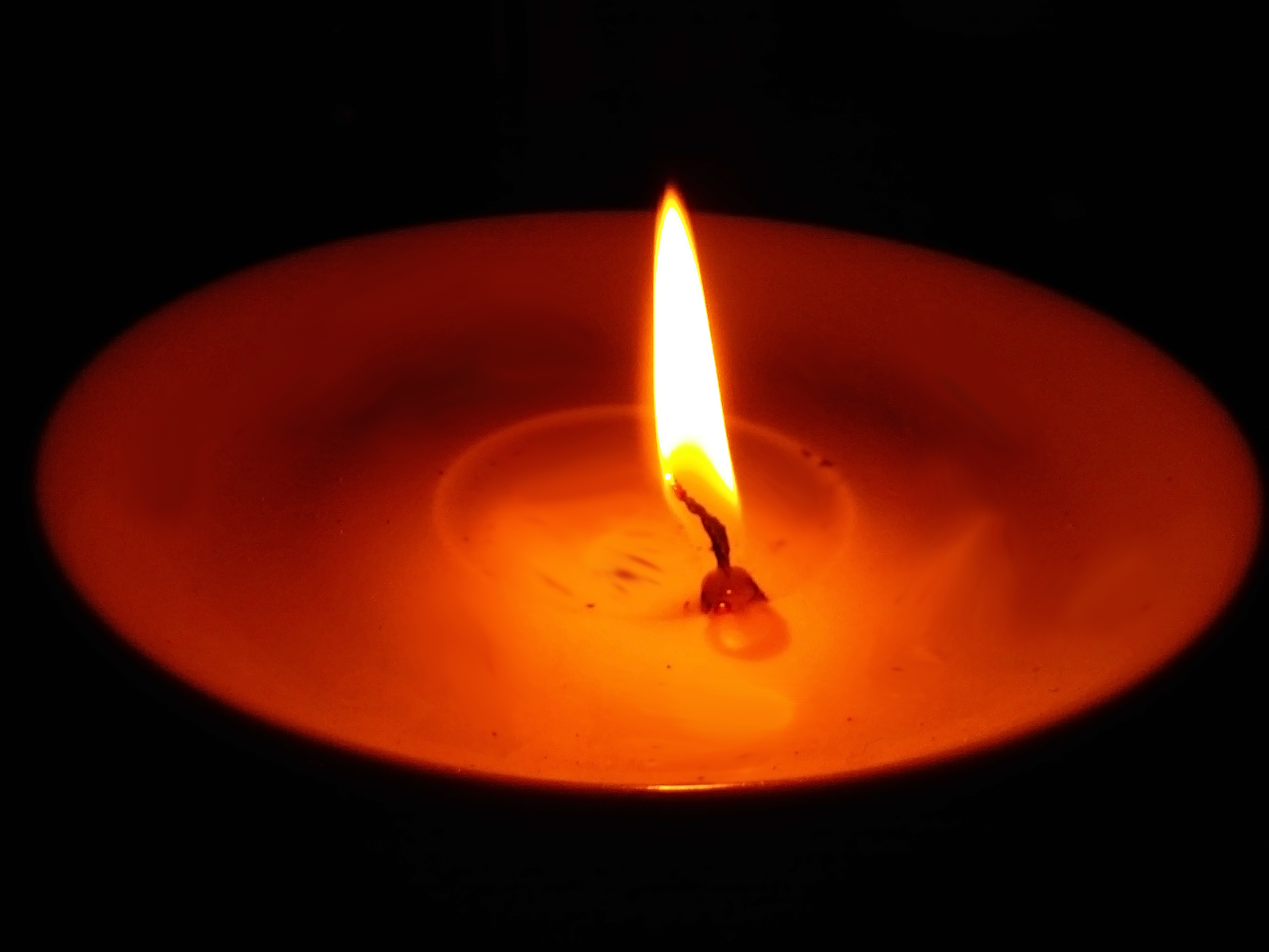 Tribute to those who gone too early while Holodomors 1932-1933 and 1946-1947